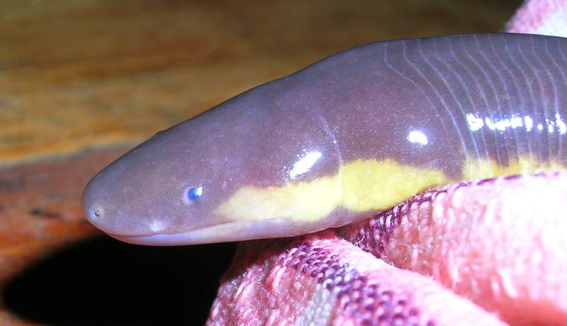 Caecilian from Wynaad 2005 Ichthyophis sp.